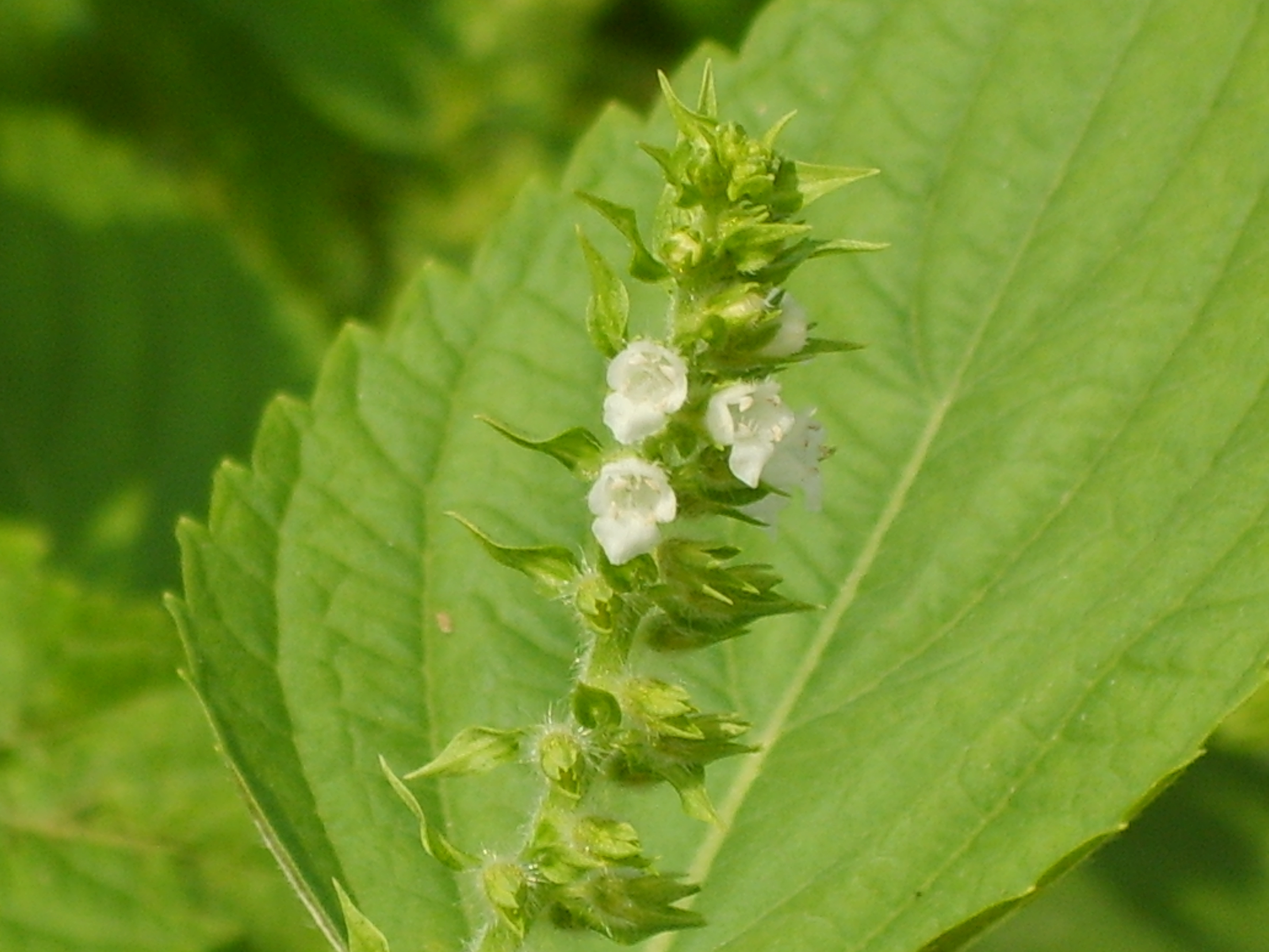 Perilla frutescens in Gimpo, Korea